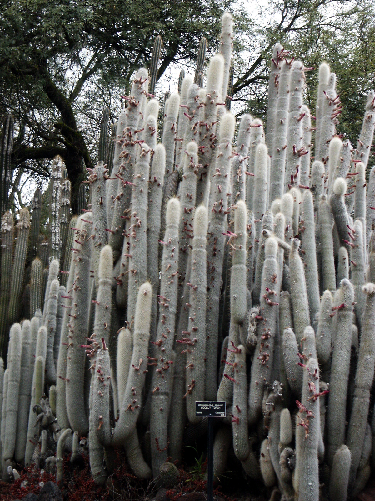 Cleistocactus strausii "Woolly torch", Huntington Library Desert Botanical Garden in afternoon during rain, February 2009 - Various cactus and succulent plants